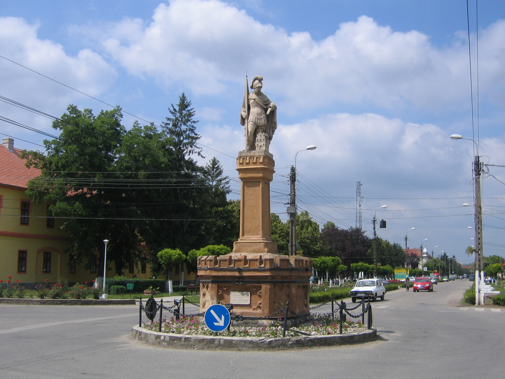 Statue of Saint Florian in Jimbolia, Romania